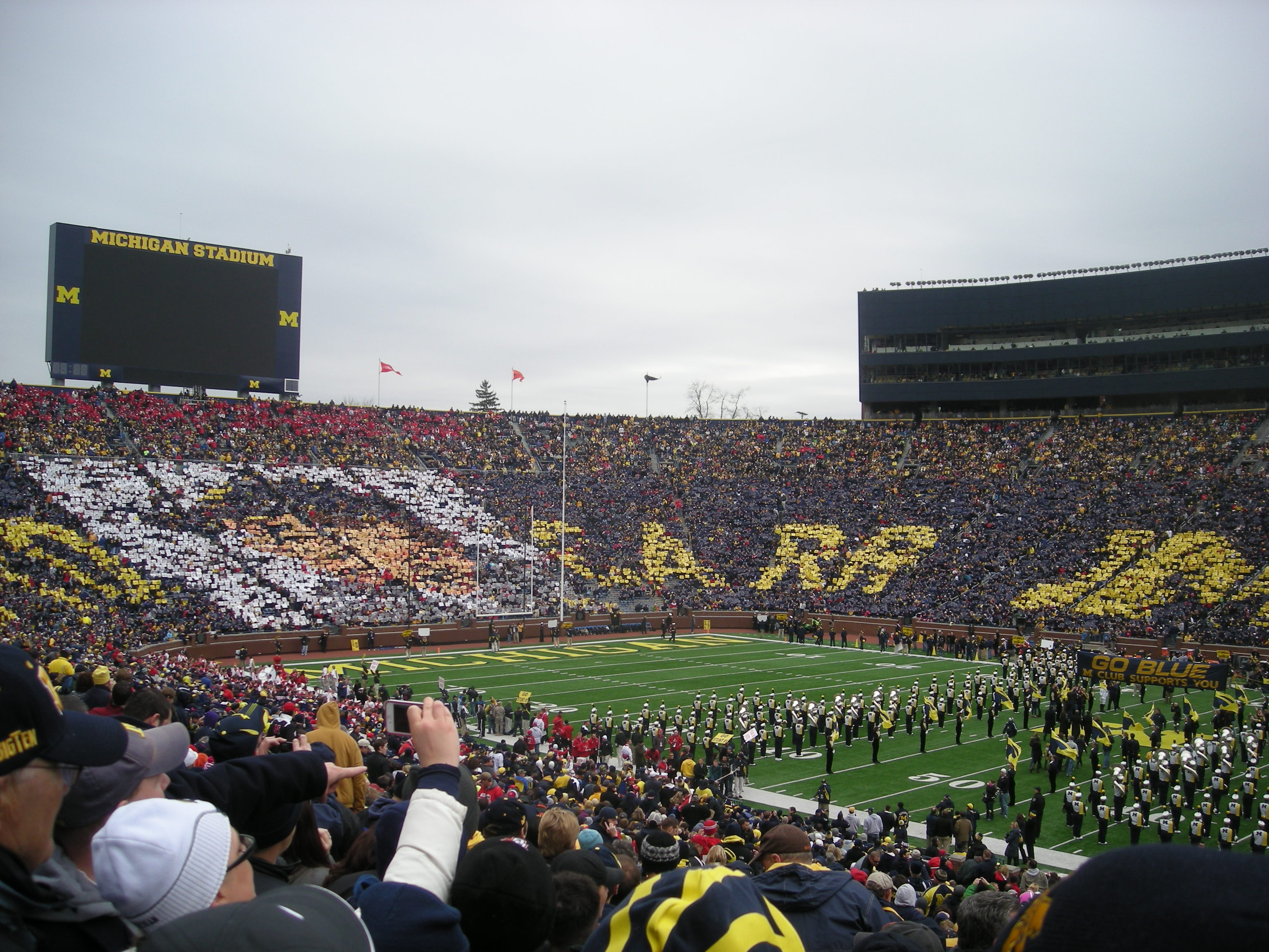 A card stunt honoring former Michigan coach Lloyd Carr performed before the Nebraska Cornhuskers vs. Michigan Wolverines football game at Michigan Stadium in Ann Arbor, Michigan (United States). Michigan won 45–17.